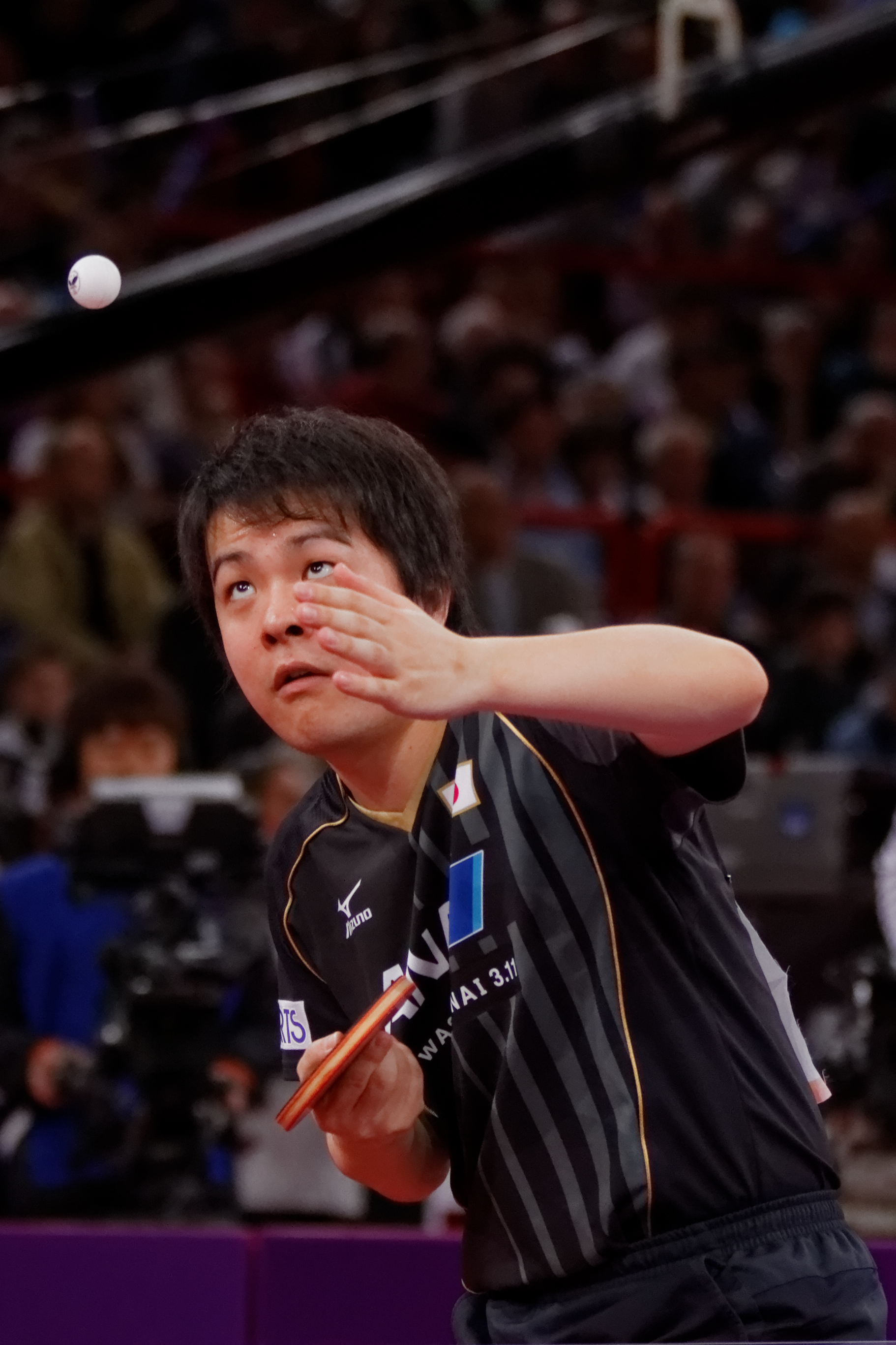 2013 World Table Tennis Championships, Paris. Men's Doubles Semifinals. Hao Shuai - Ma Lin vs Seiya Kishikawa - Jun Mizutani